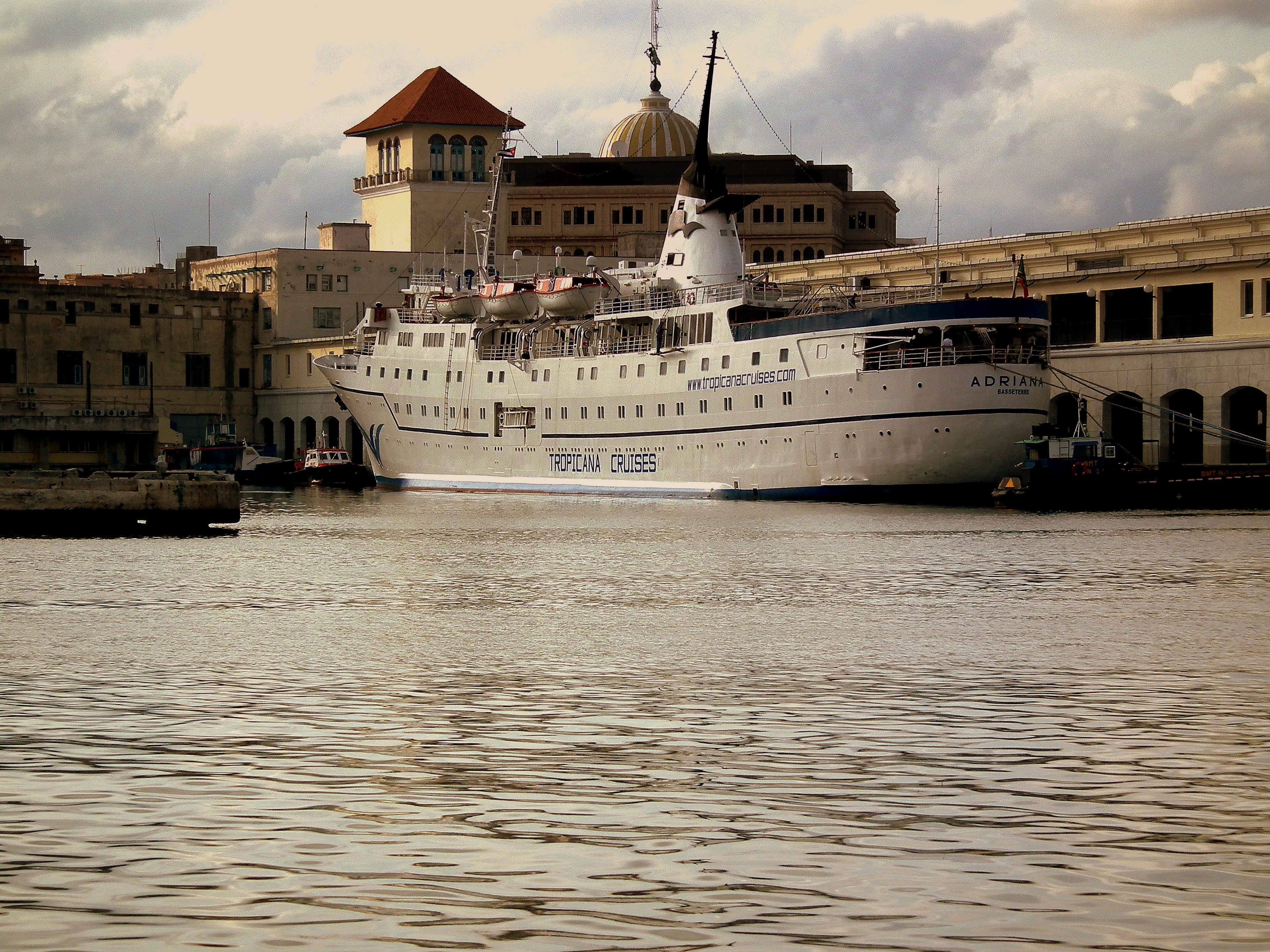 Cruise ship at the terminal, Havana